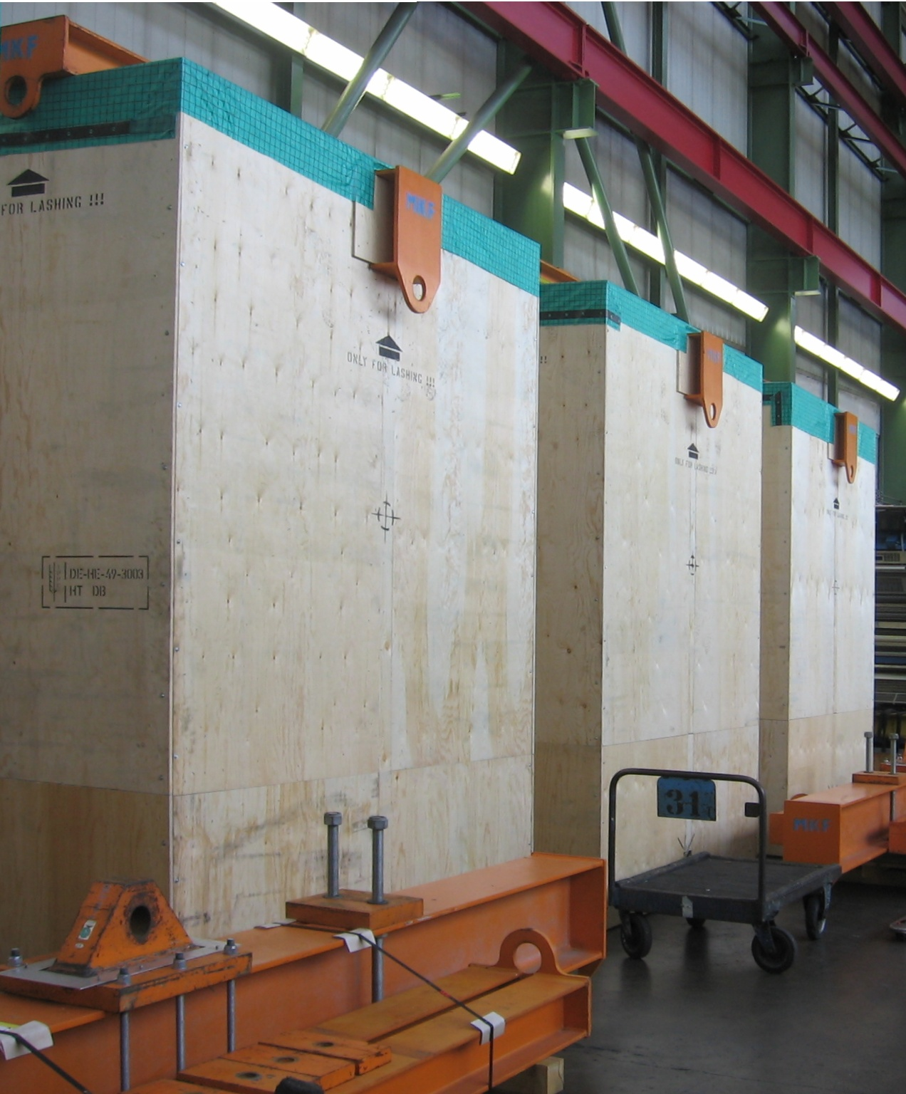 three big wooden boxes (40 tons and ~100 cubic meters each) with large parts of machinery inside; ready to transport from Europe to China